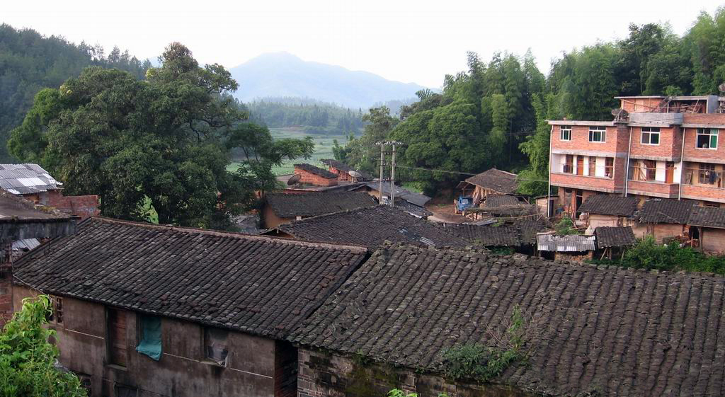 Ninghua,Caofang,Zhangwukeng